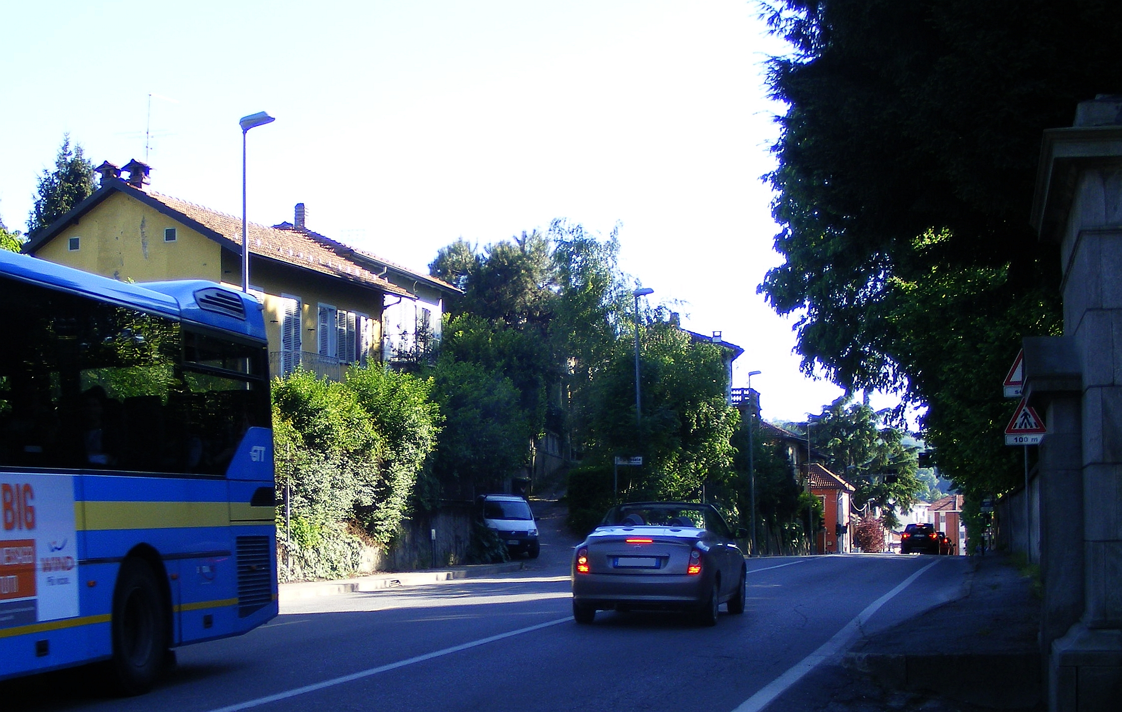 Former national road n. 590 della Val Cerrina in Sambuy (San Mauro, TO, Italy)